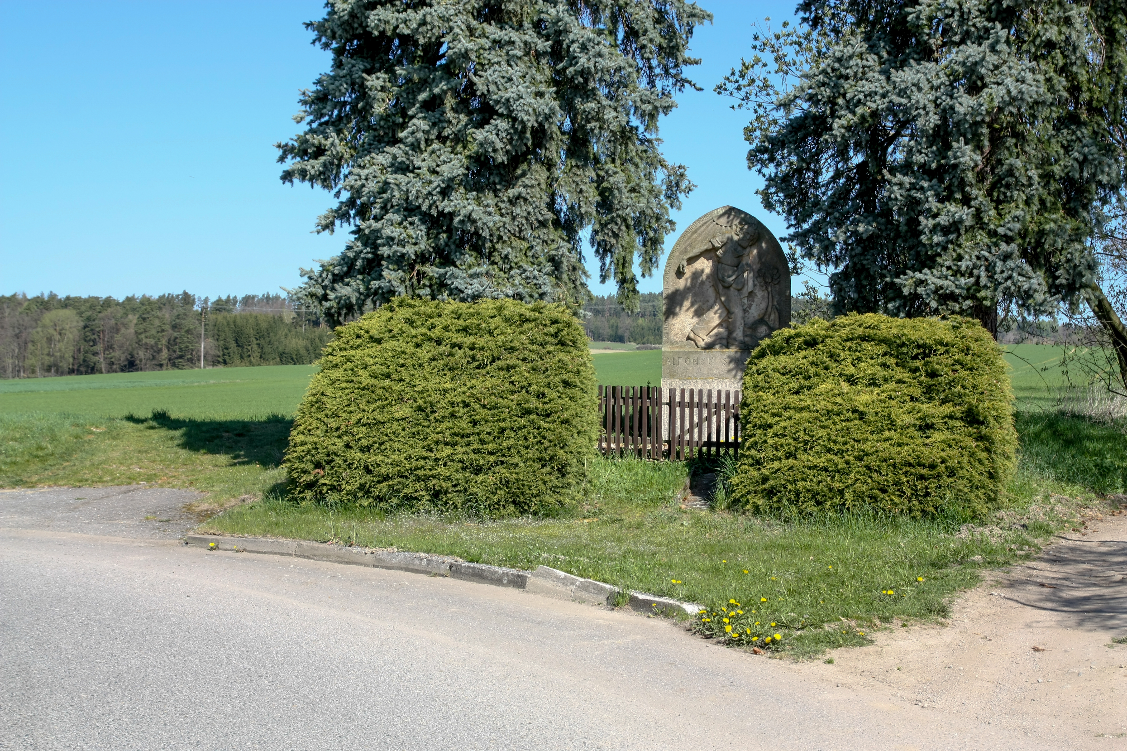 Memorial to Alfons Šťastný in municipality Padařov, Tábor District, South Bohemian Region, Czechia